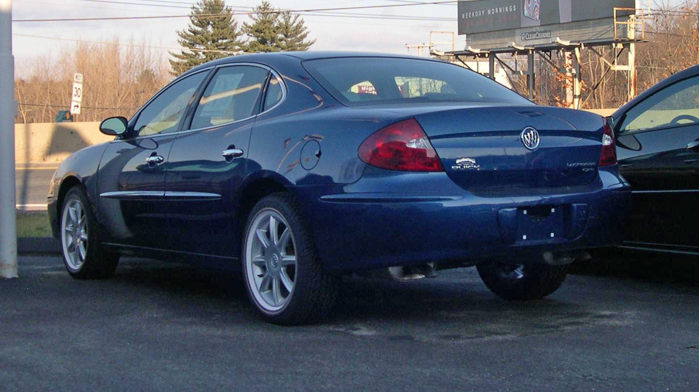 2006 Buick LaCrosse